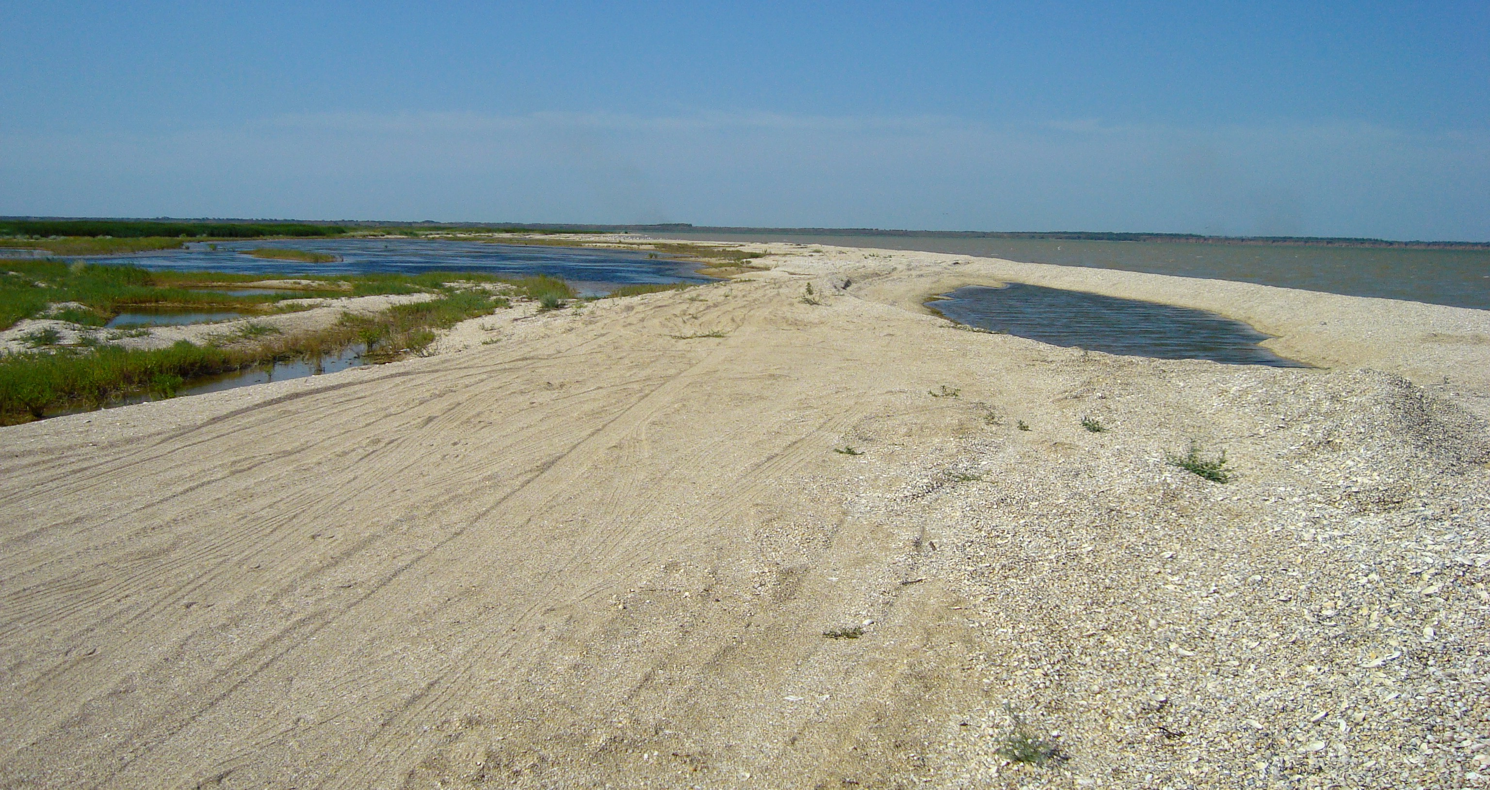 Kamyshevatskaya spit, Yeysky District, Russia.